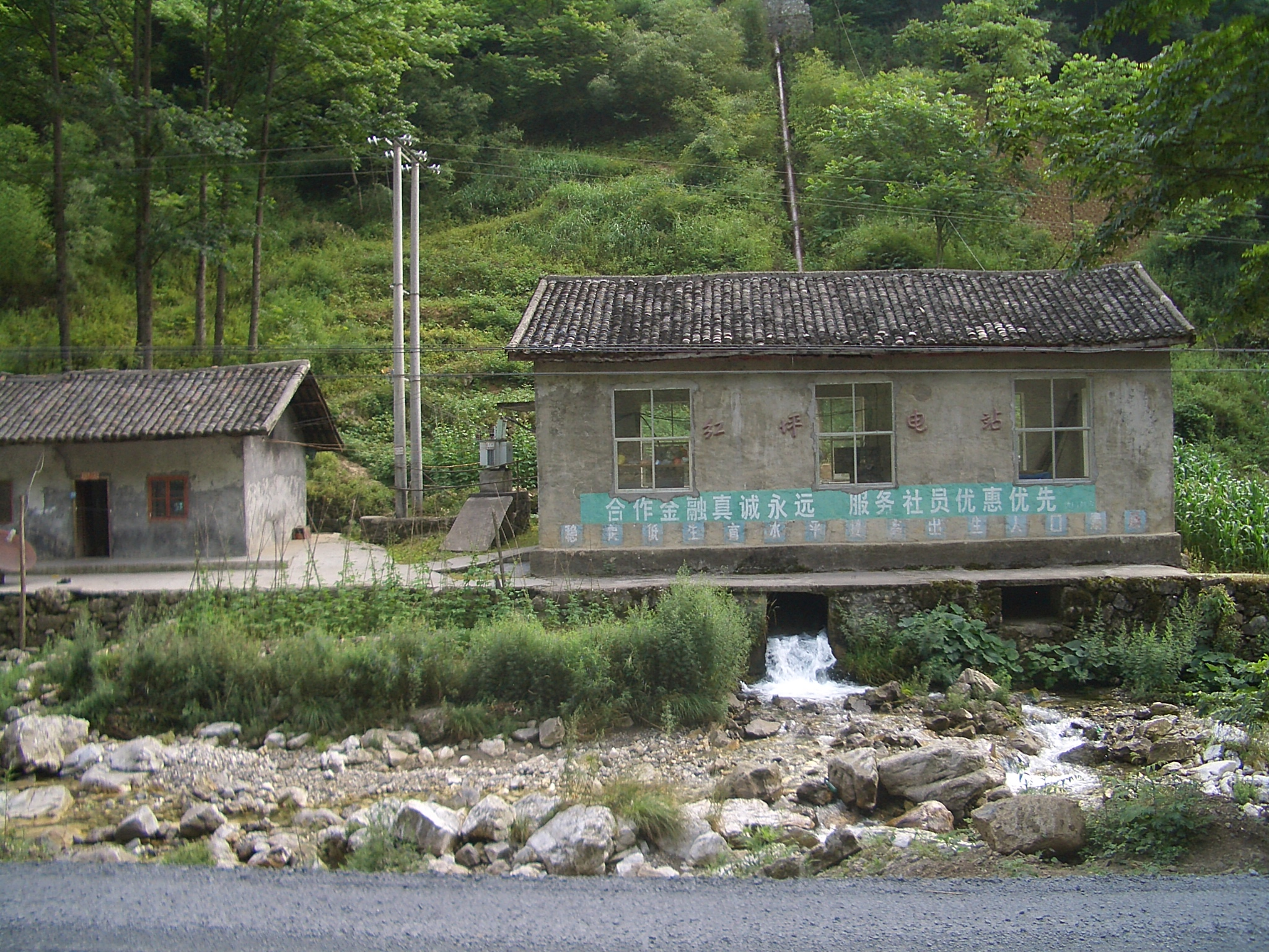 Hongping Power Station, a small hydro power plant near G209, a few km south of Hongping, in Shennongjia Forestry District. As many other similar stations in the region, it gets water coming from a mountain in a pipe (not shown). The house on the left is apparently the station-watcher's home..